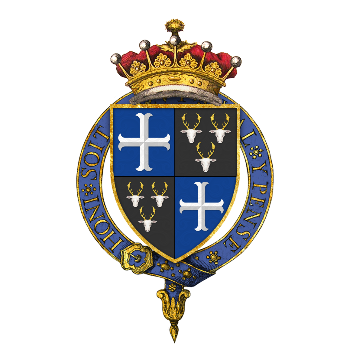 Garter encircled shield of arms of William Cavendish-Bentinck, 6th Duke of Portland, KG, as displayed on his Order of the Garter stall plate in St. George's Chapel.